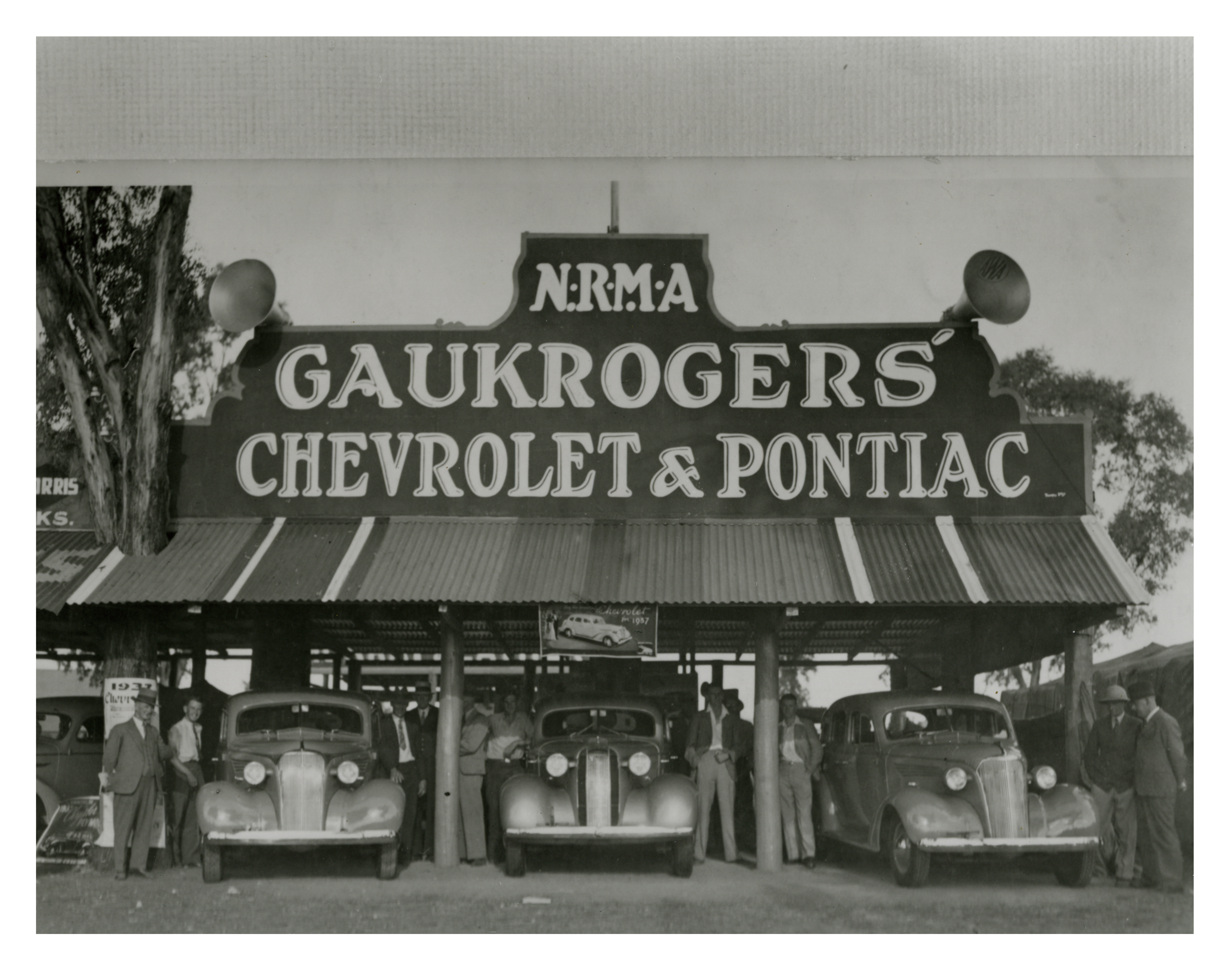 Tumut (CSC) NRMA Drivers seat takes a look back at the the people , places and moments, that have helped shape and define NRMA Motoring and services , into a Motoring Organisation with over 2.2 million members. Here is also the link for you to enjoy of NRMA history through the years, via a video based presentation